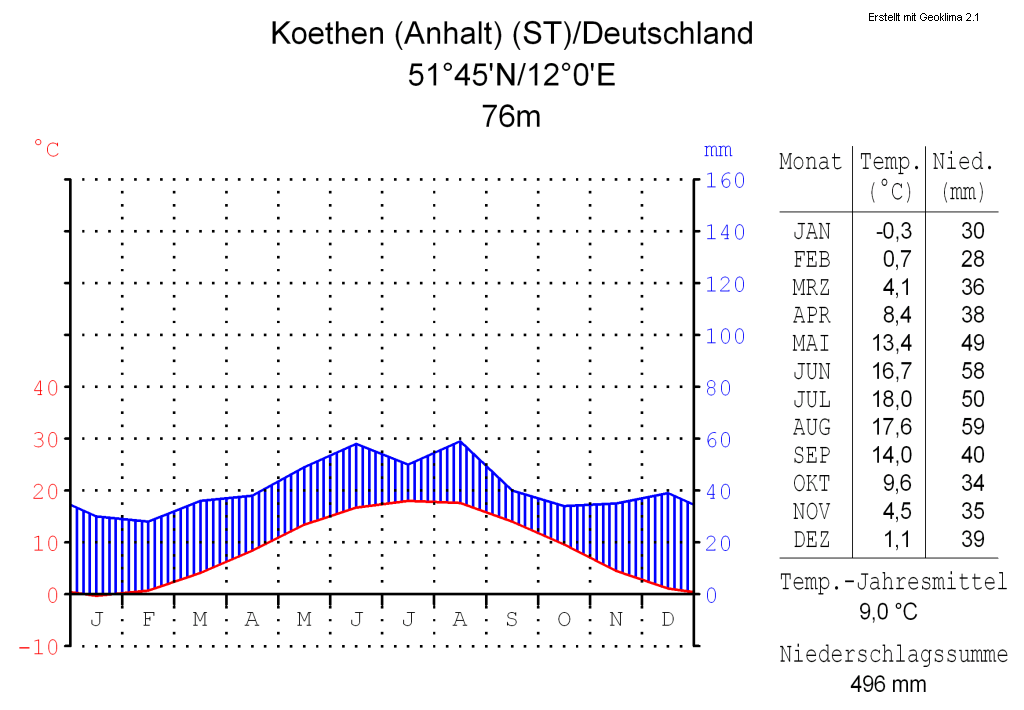 climate chart in the format by Walter and Lieth, metric, °Celsisus and millimeters, made with Geoklima 2.1